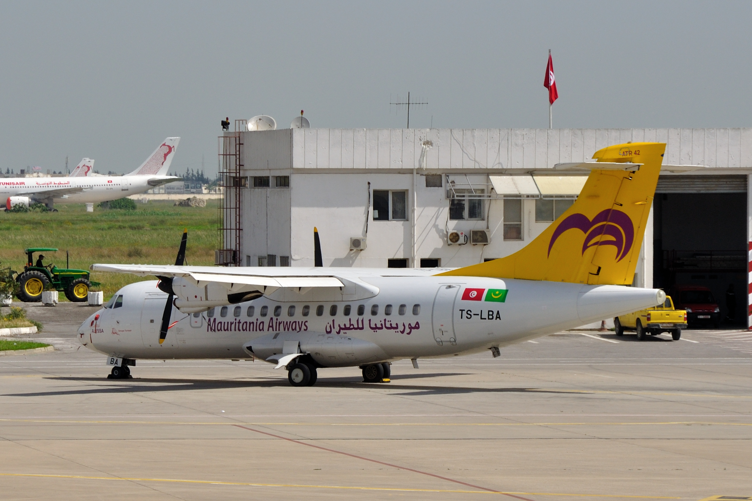 Tunisia, aircraft at Tunis-Carthage International Airport